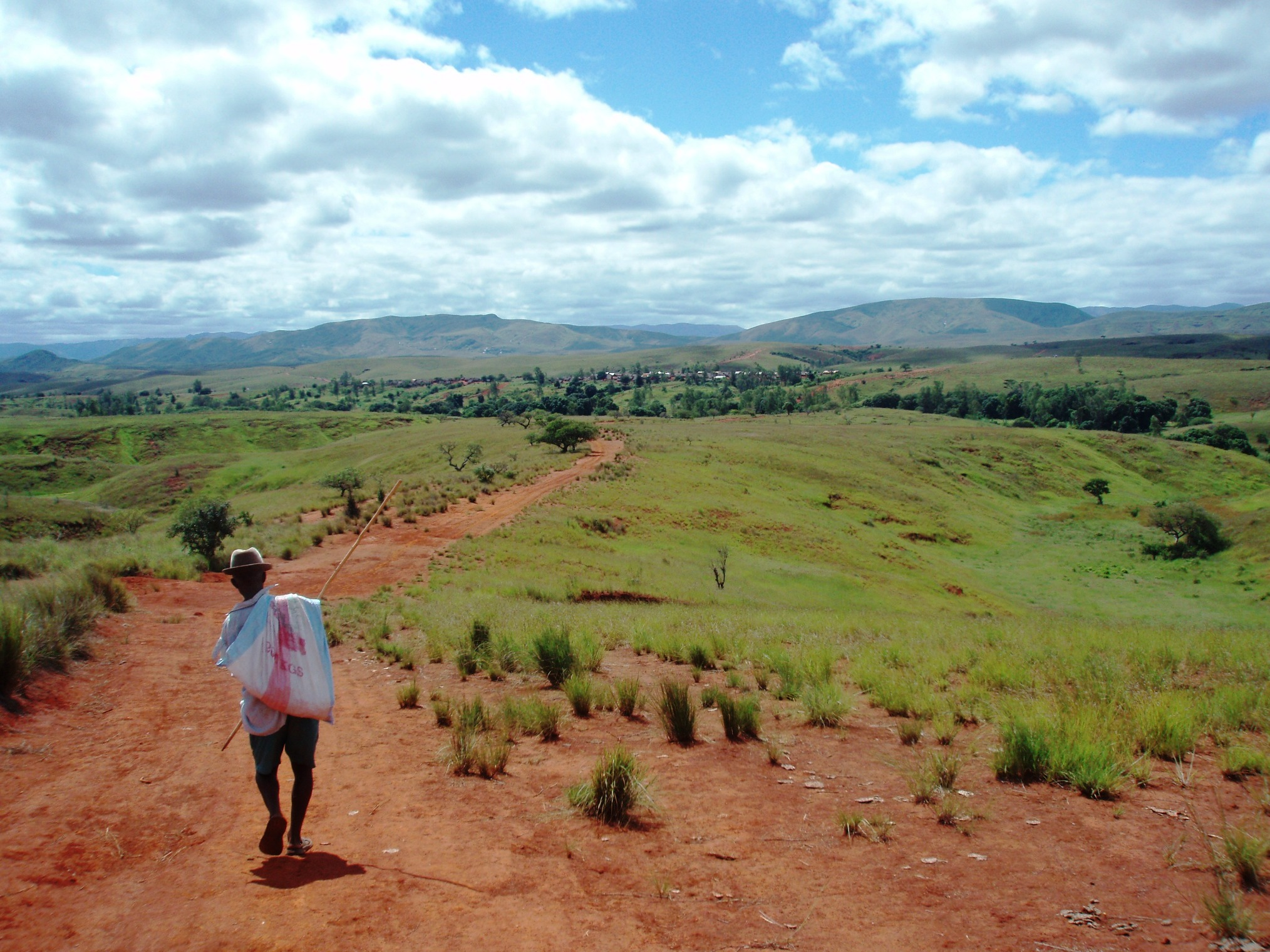 Andilamena District, view in SW direction, in the distance the small town of Miarinarivo